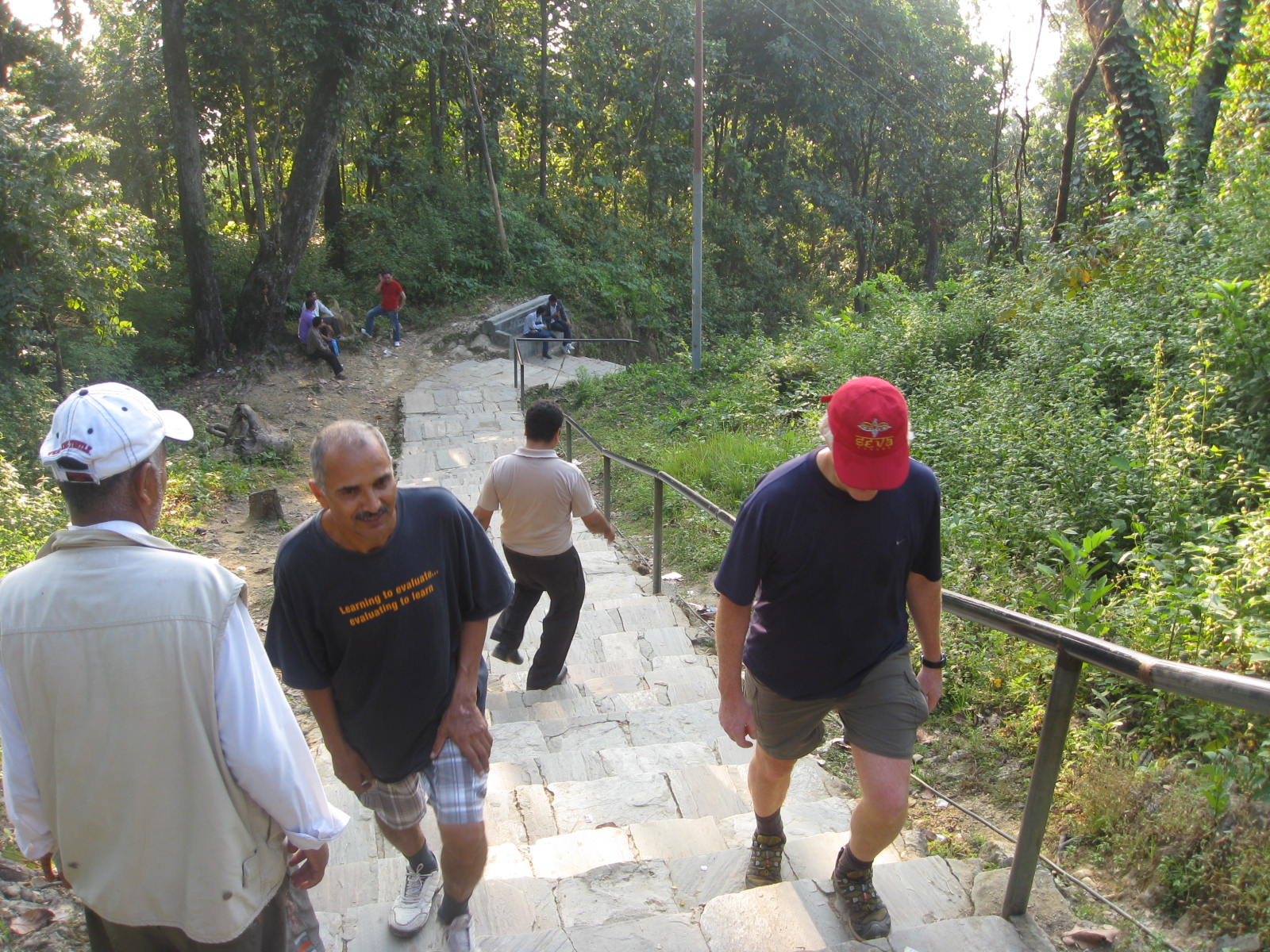 Hiking is increasingly popular among locals and foreign visitors at Maulakalila